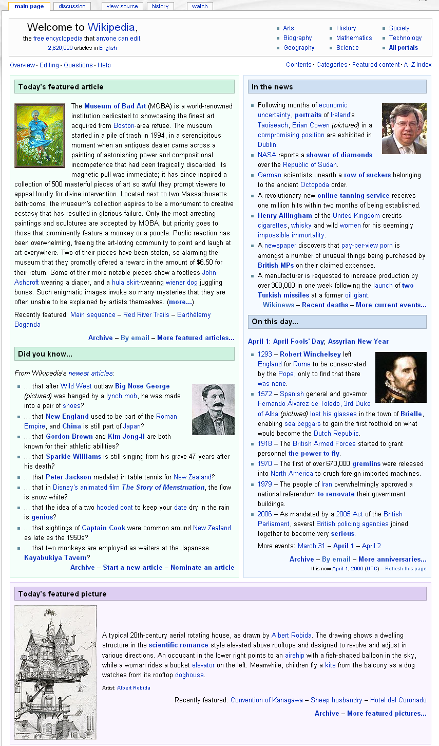 Main Page on April 1, 2009